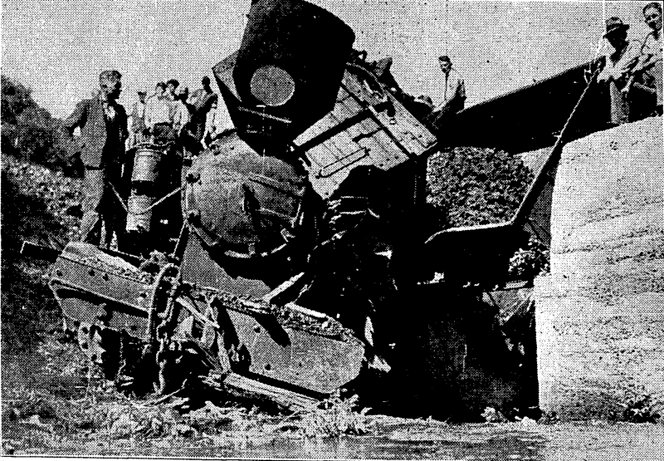 Train crash Glen Massey Railway near Ngaruawahia, Tuesday 28 March 1933